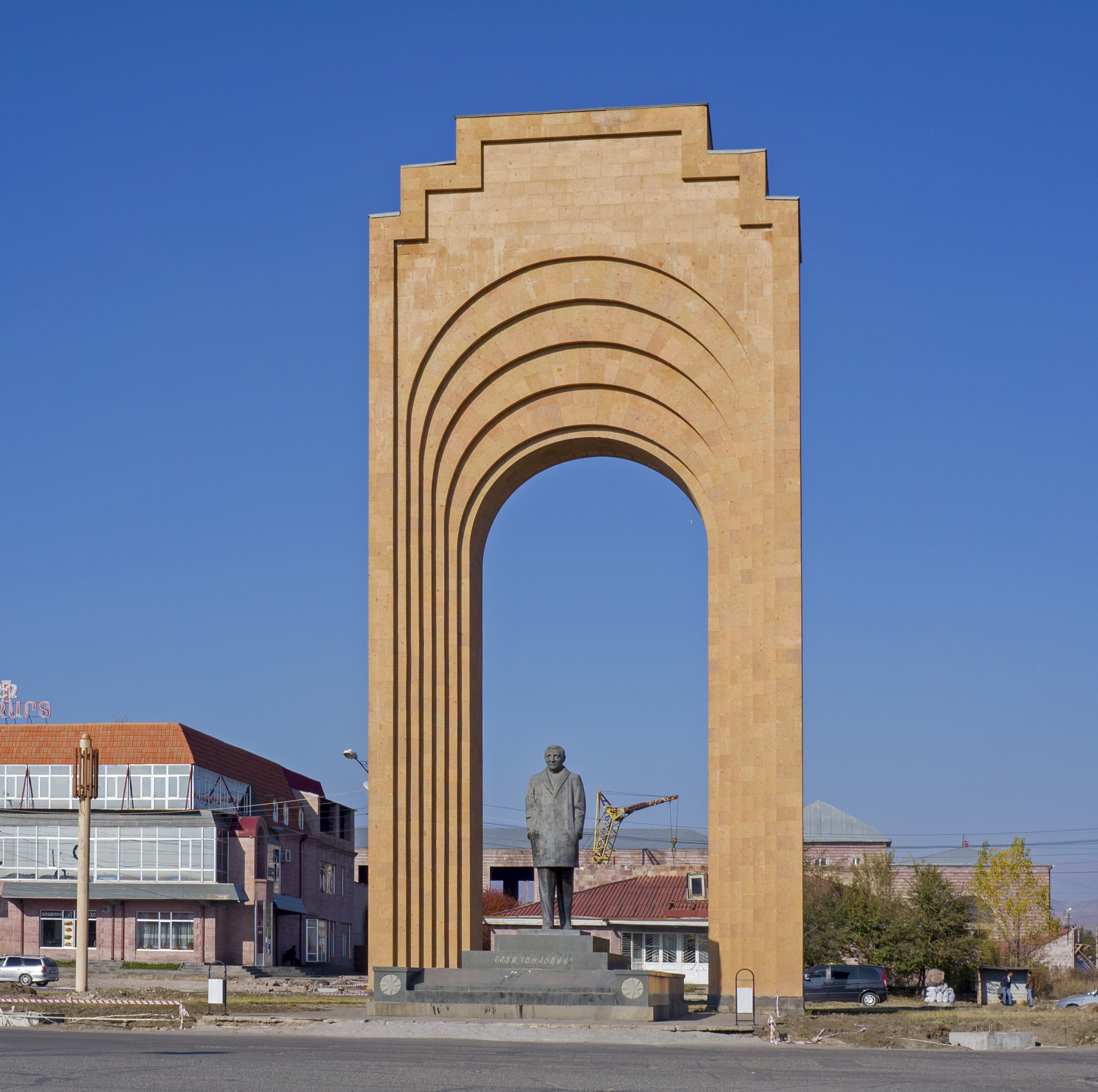 Statue of Charles Aznavour in Gyumri, Armenia.